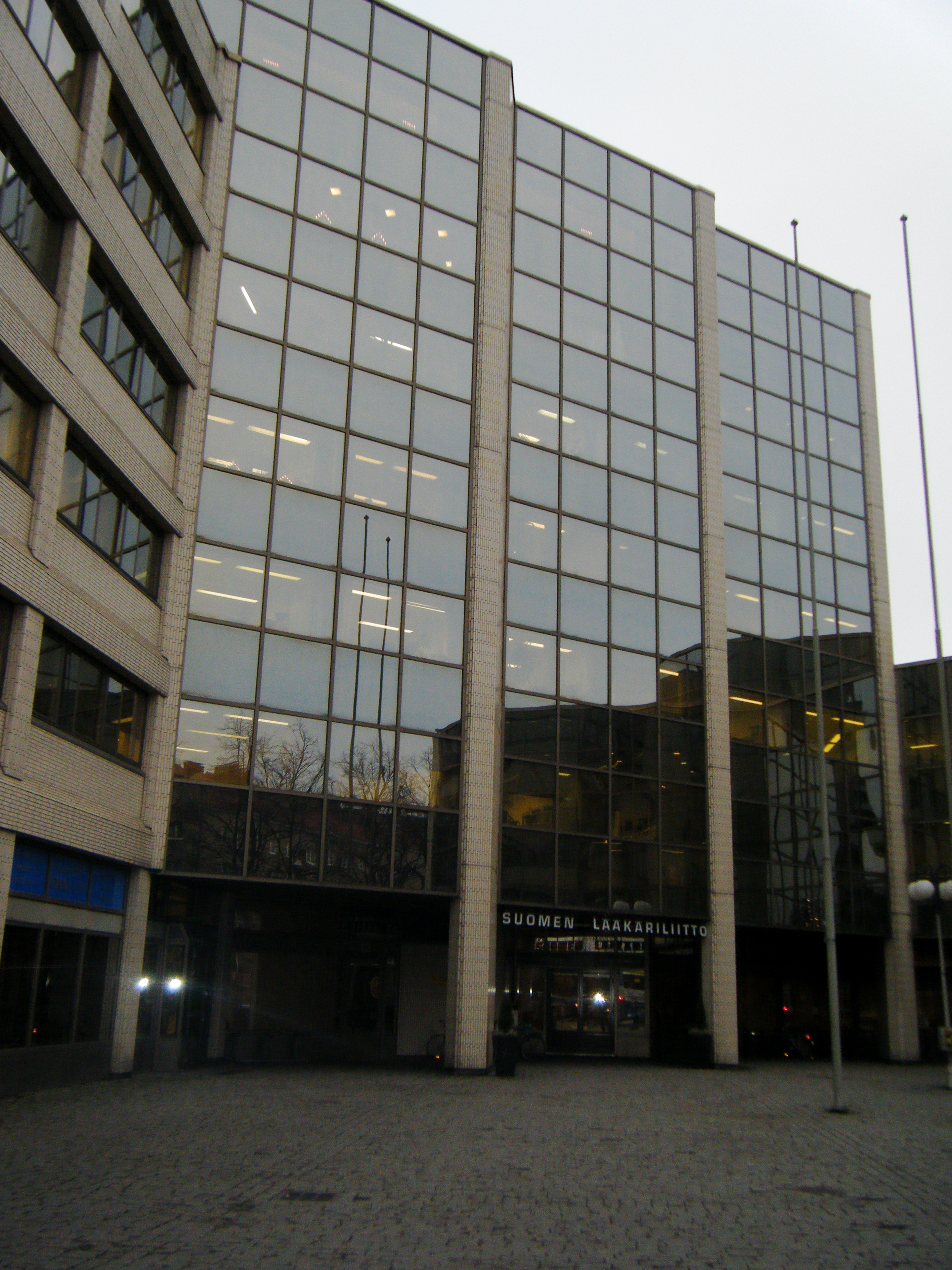 Finnish Medical Association Headquarters, Helsinki, Finland.